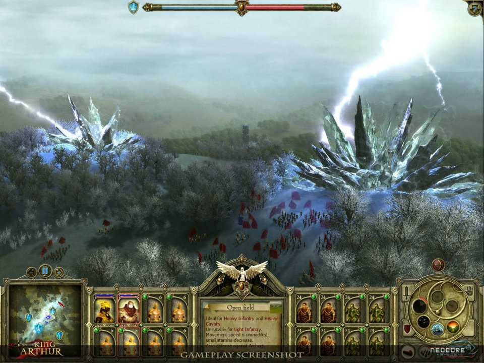 Image is of a screenshot from King Arthur: The Role-playing Wargame, a NeocoreGames video game.